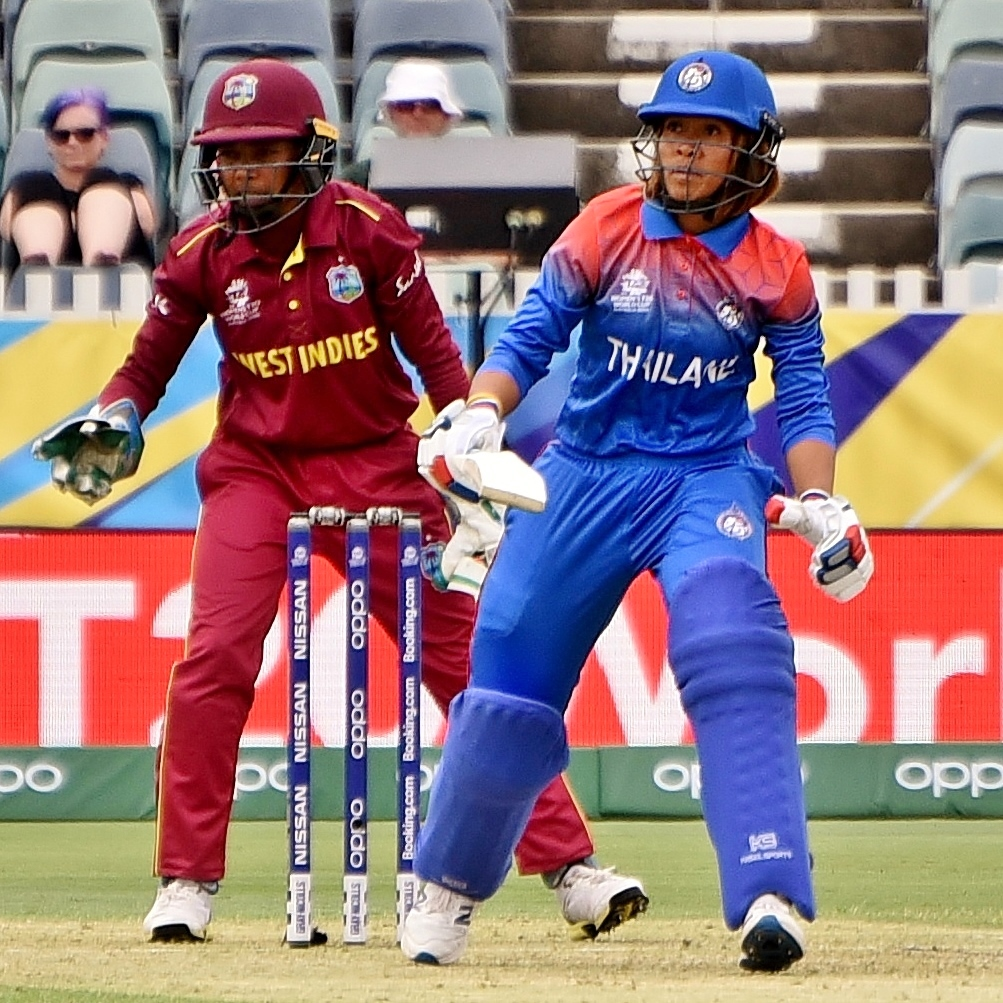 Sornnarin Tippoch batting for Thailand against the West Indies during their 2020 ICC Women's T20 World Cup match at the WACA Ground in Perth, Australia. The wicket-keeper is Shemaine Campbelle